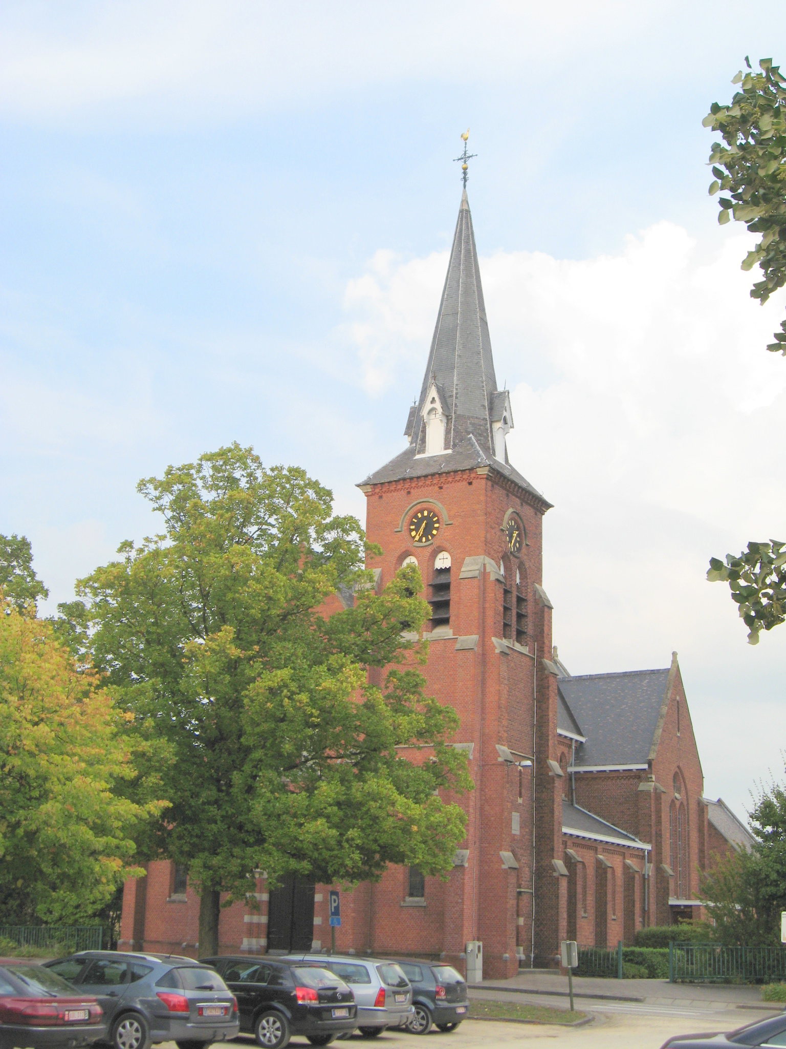 Church of Saint Charles Borromeo in Rauw, Mol, Antwerp, Belgium